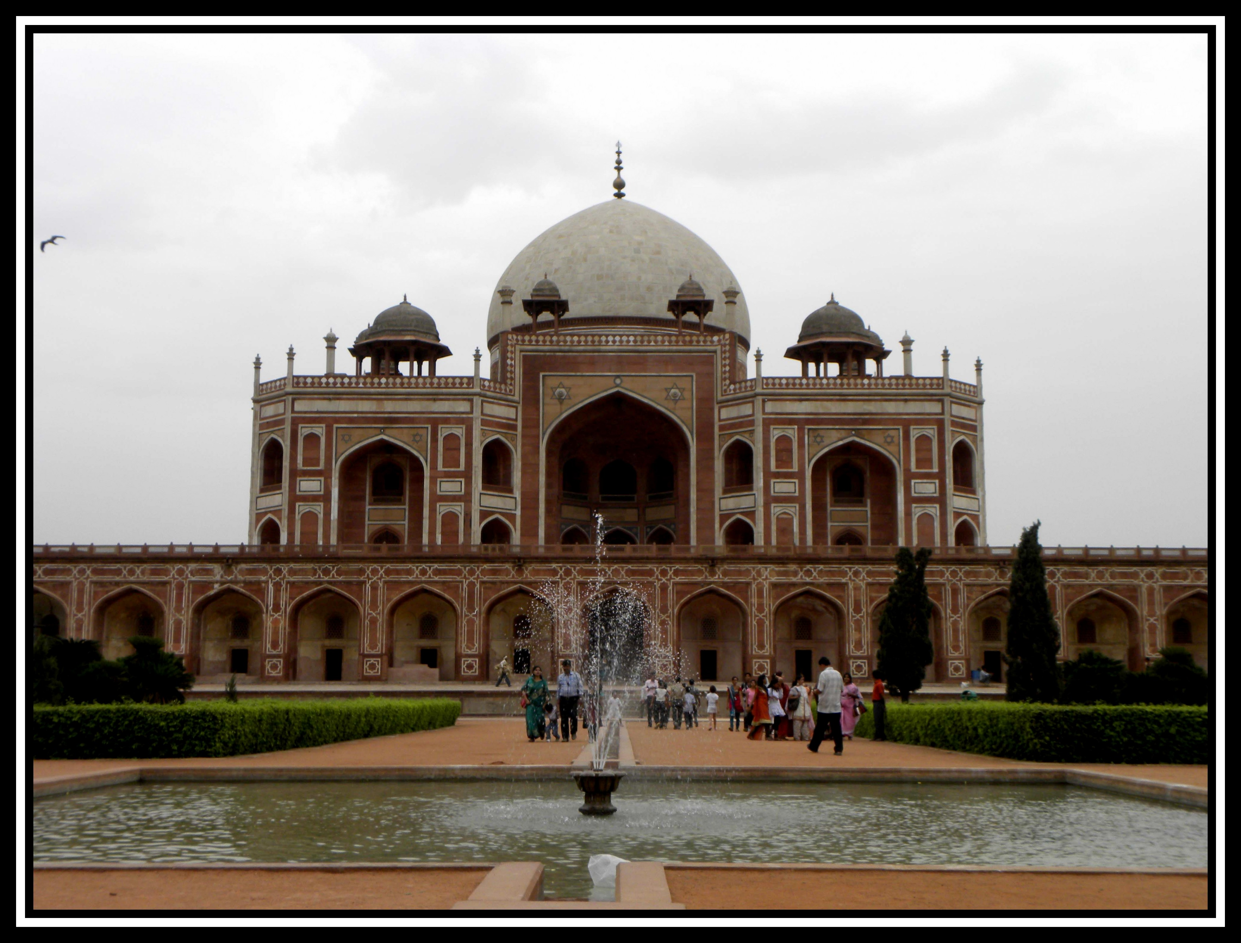 Humayun's tomb in Delhi